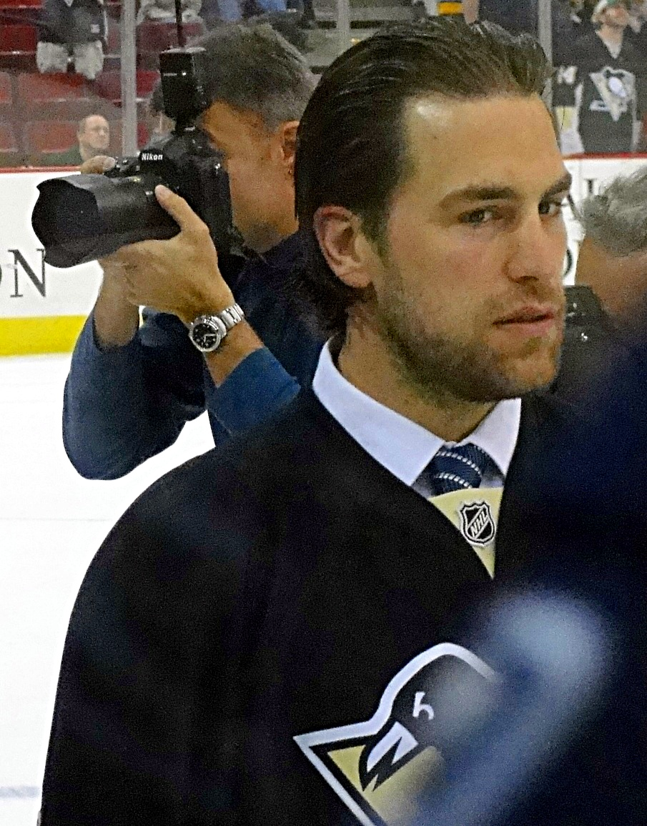 Pittsburgh Penguins enforcer Eric Godard during the "Shirts Off Our Backs" promotion following the final regular season game ever played at Mellon Arena in Pittsburgh, PA, April 8, 2010.